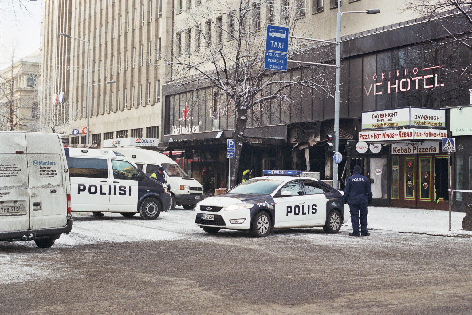 Police and fire/emergency personnel at Hämeenkatu 10 in the center of Tampere in Finland at around 12:00 AM on November 22, 2010 (Finnish time). A fire (probably broken out some time after 5 AM) has destroyed kebab-pizzeria Juliet and damaged other parts of the building. The fire also claimed three lives and injured four people. Most of these seven are/were probably inhabitants of the building.